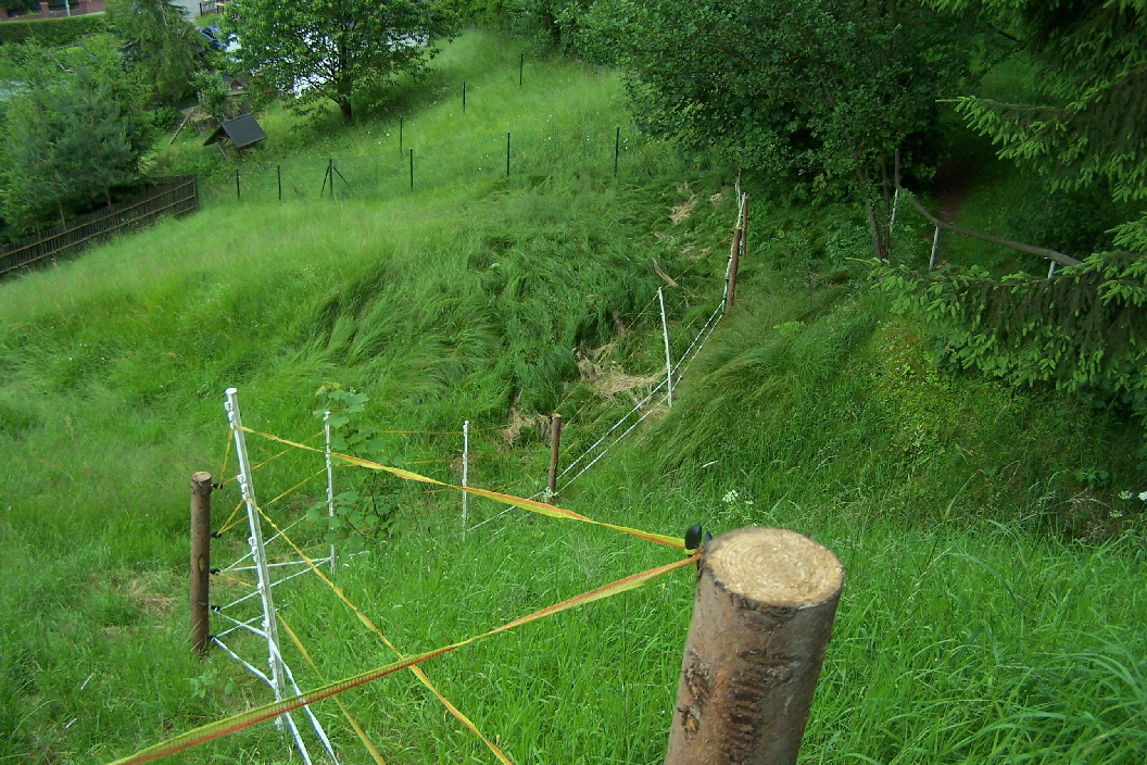 At the first wall.